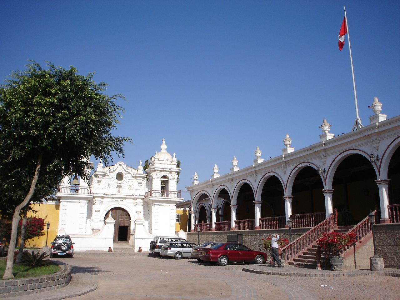 Hacienda San José Chincha, Perú